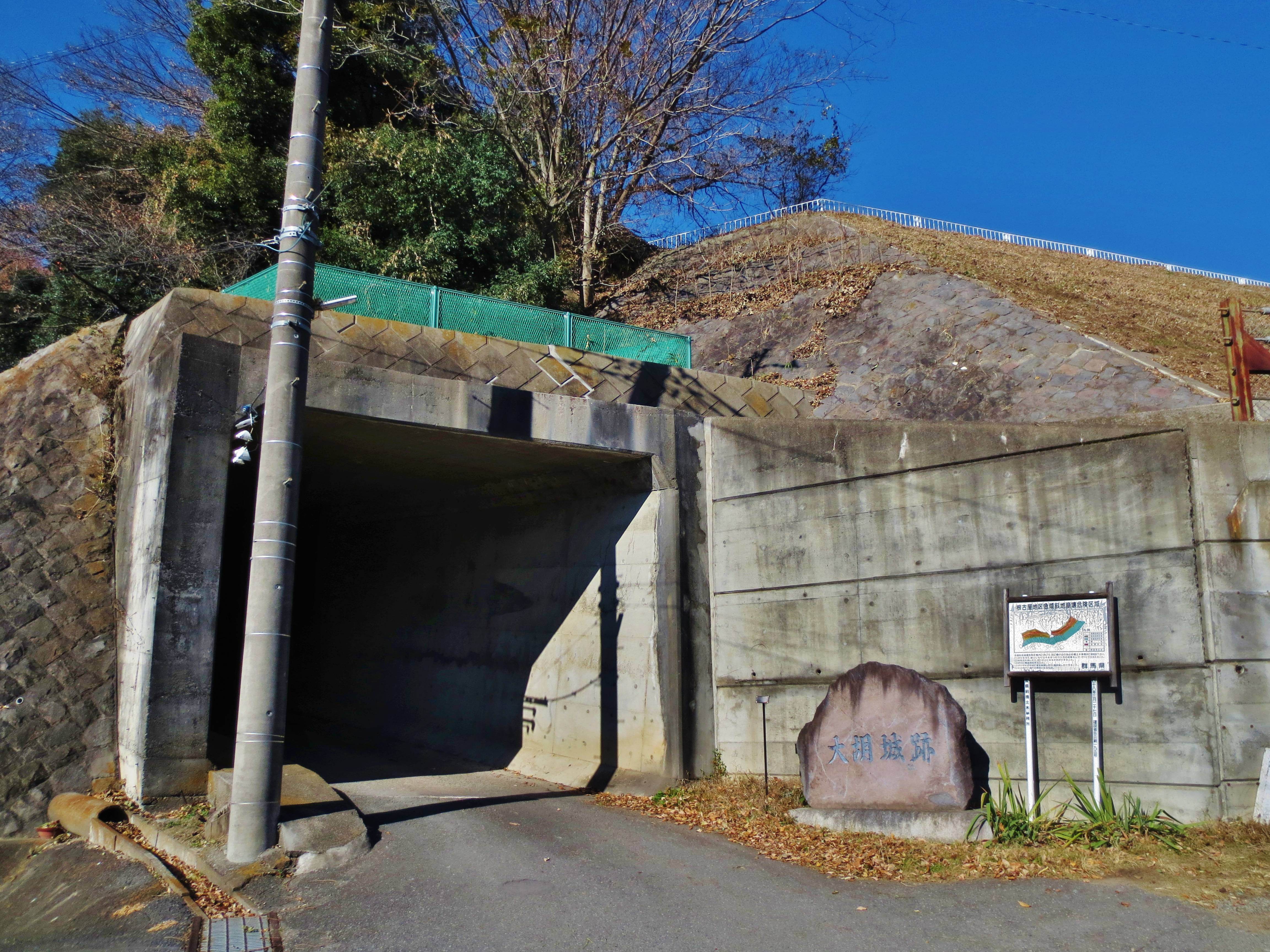 Ogo Castle.